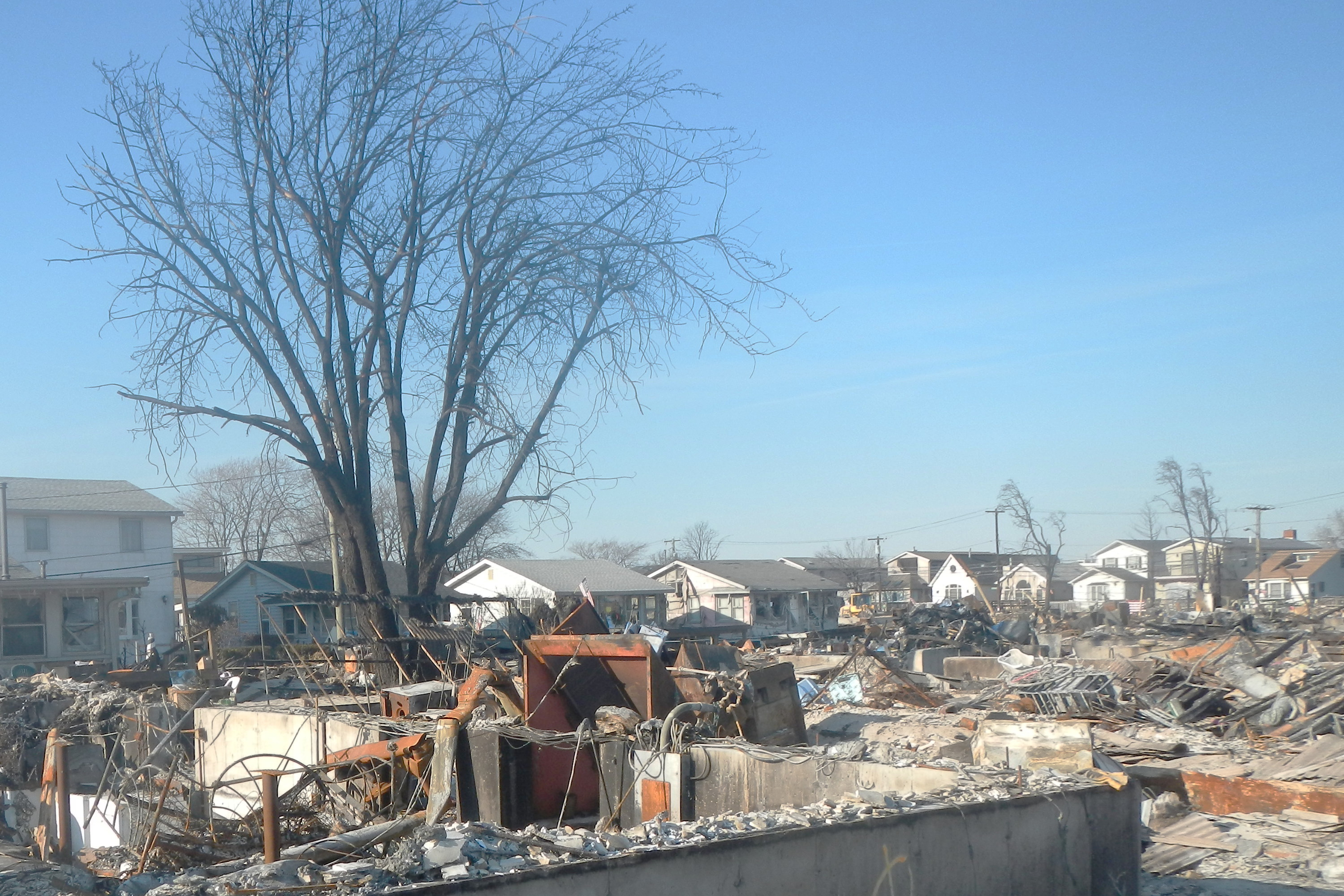 Looking northwest at burnt district.